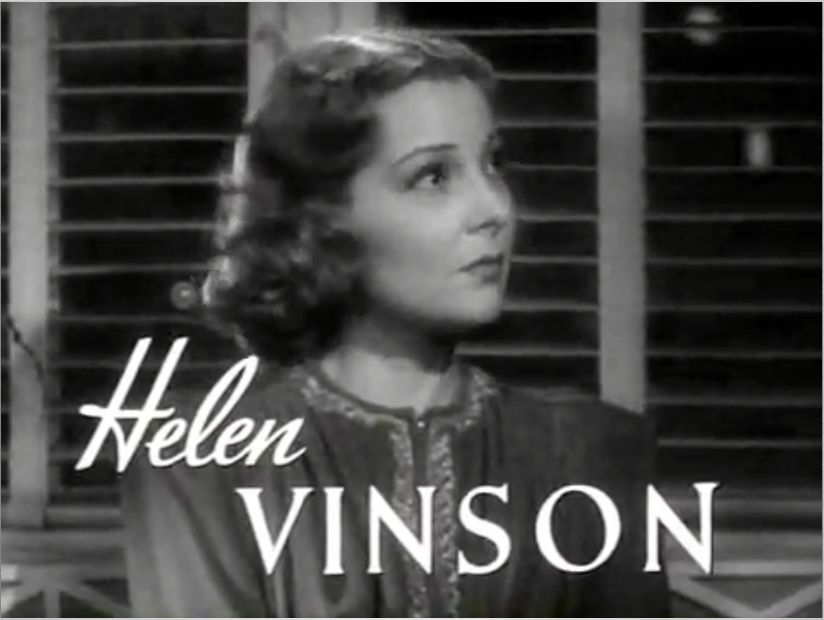 Screenshot of Helen Vinson from the trailer for the film Beyond Tomorrow